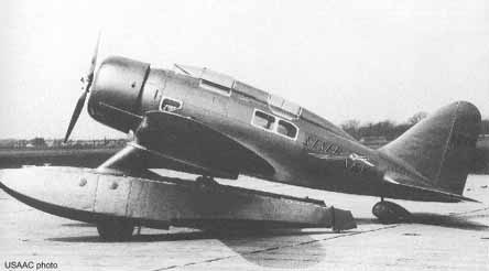 The SEV-3 amphibian as it appeared at Wright Field in the summer of 1934. Credits - U.S. Army Air Corps